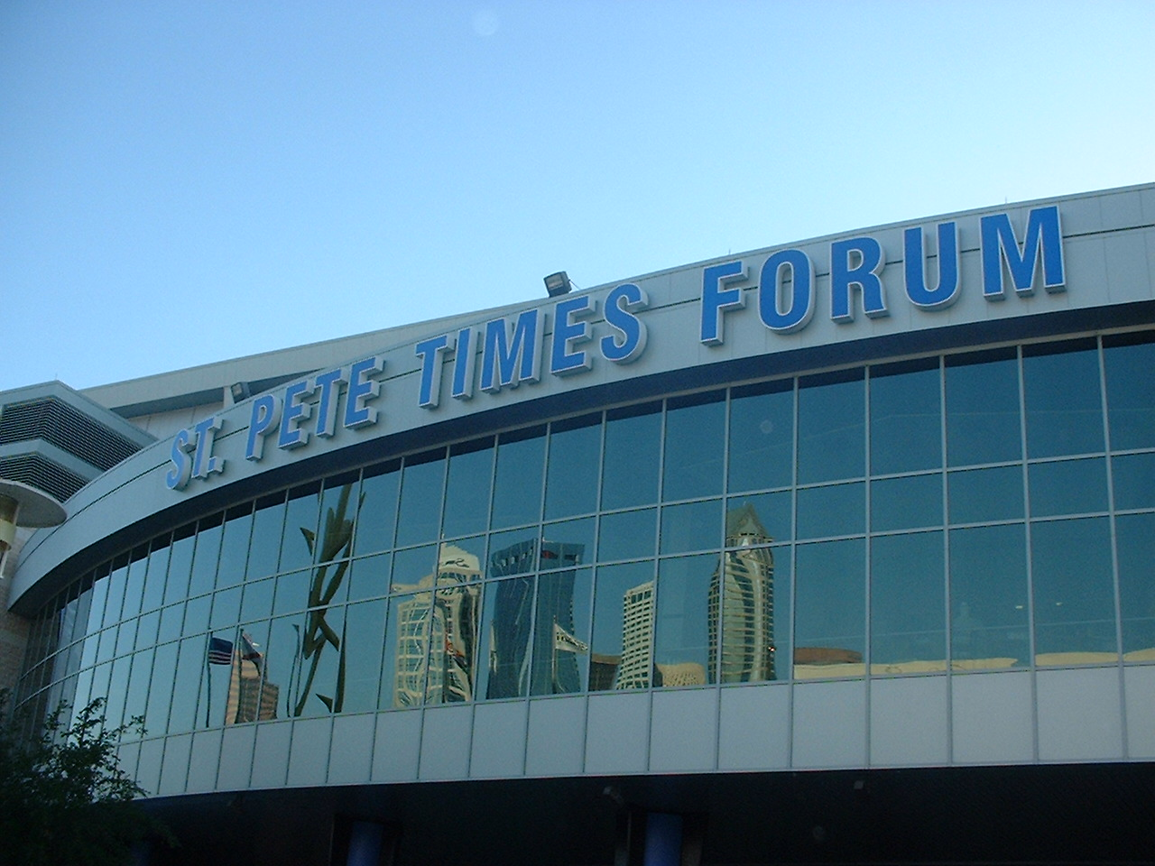 St. Pete Times Forum. Taken by me on November 12, 2005.